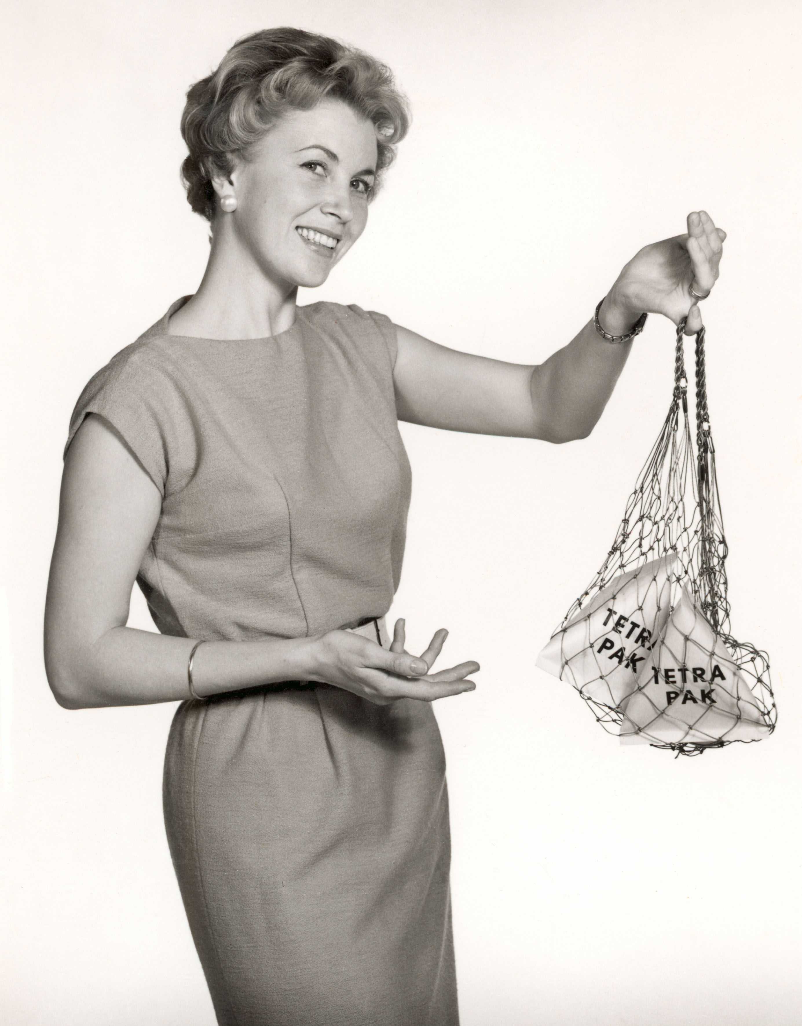 Tetra Pak housewife with shopping net, 1950s